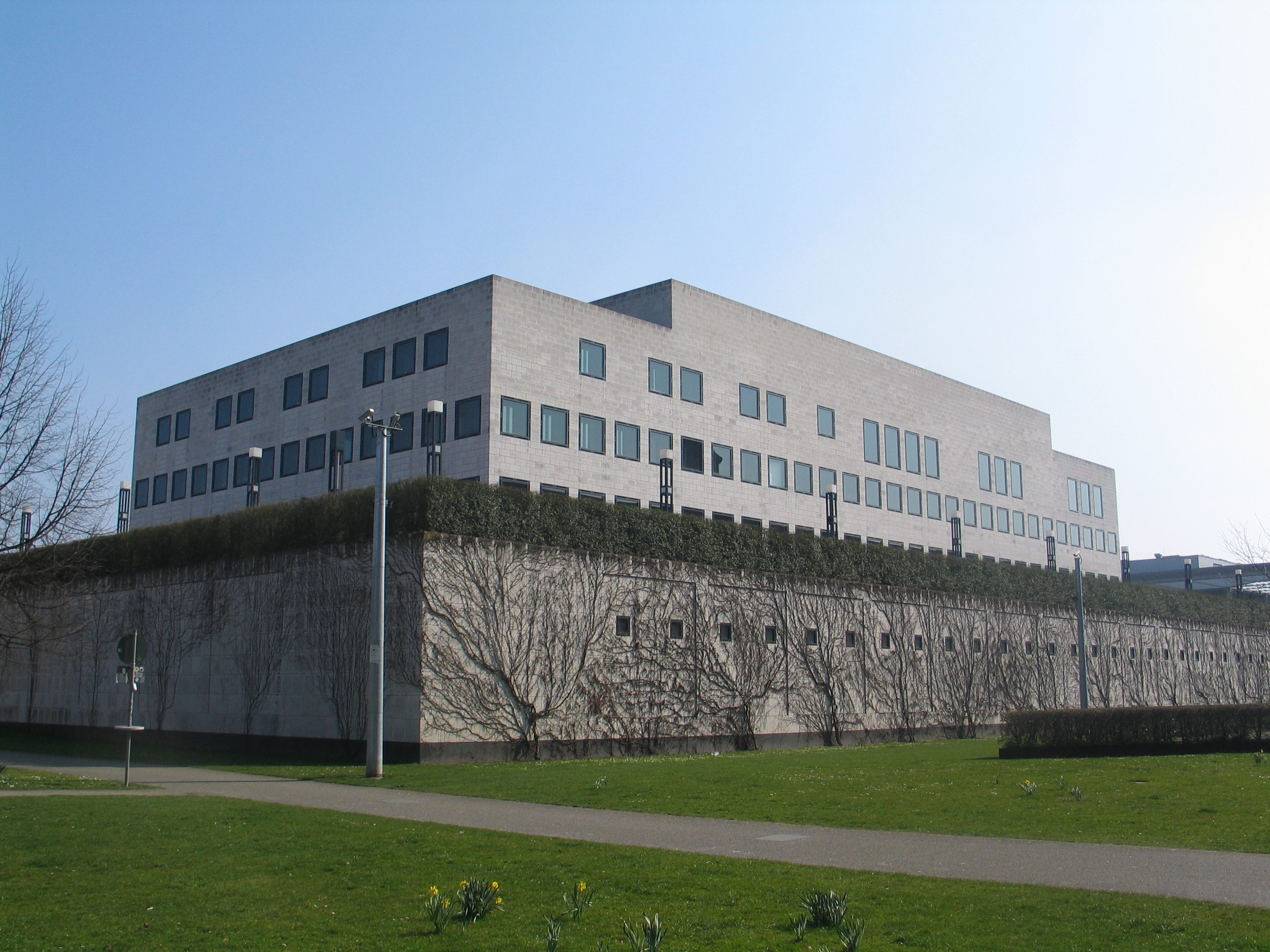 Seat of the Attorney General of Germany (Karlsruhe)